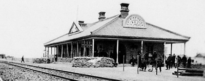 File:CHININGHSIEN Railway Station